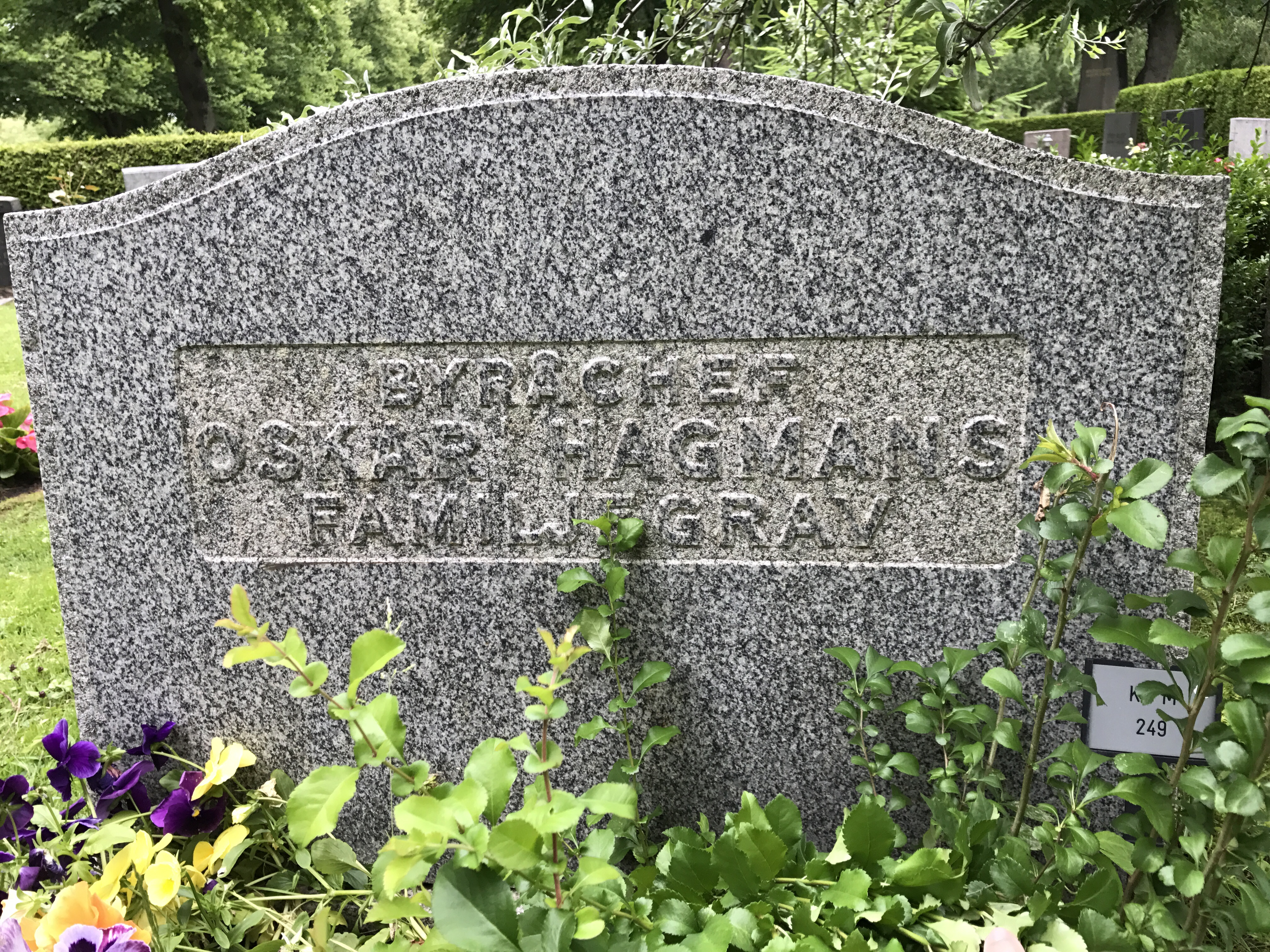 Grave picture of Oskar Hagman